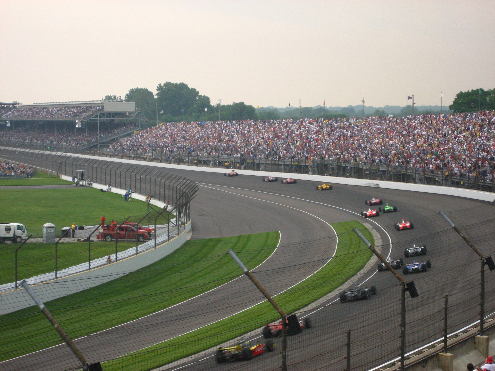 The final restart of the 2007 Indianapolis 500 with Dario Franchitti leading.